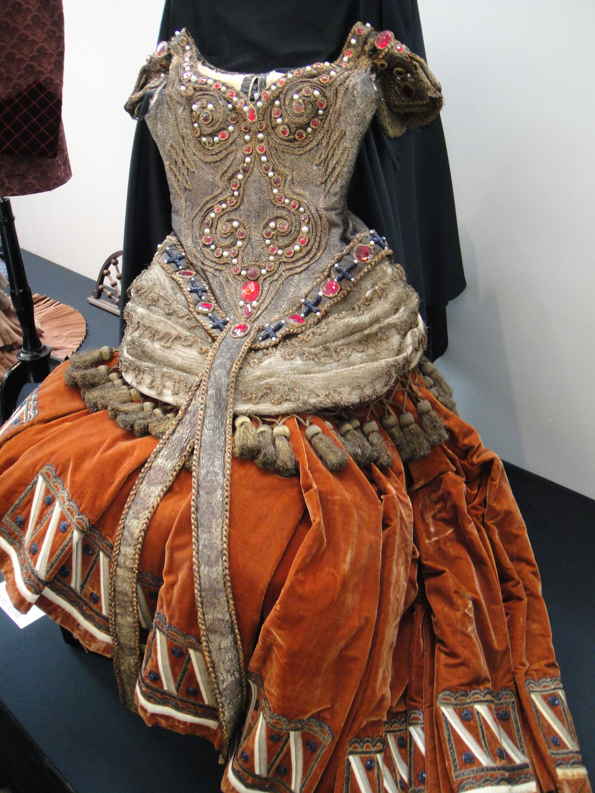 Prop dress of "hidden jewels" from "Gaslight" at the Debbie Reynolds Auction Breaks Up Historic Hollywood Collection (The Paley Center for Media in Beverly Hills, Los Angeles, CA, USA).